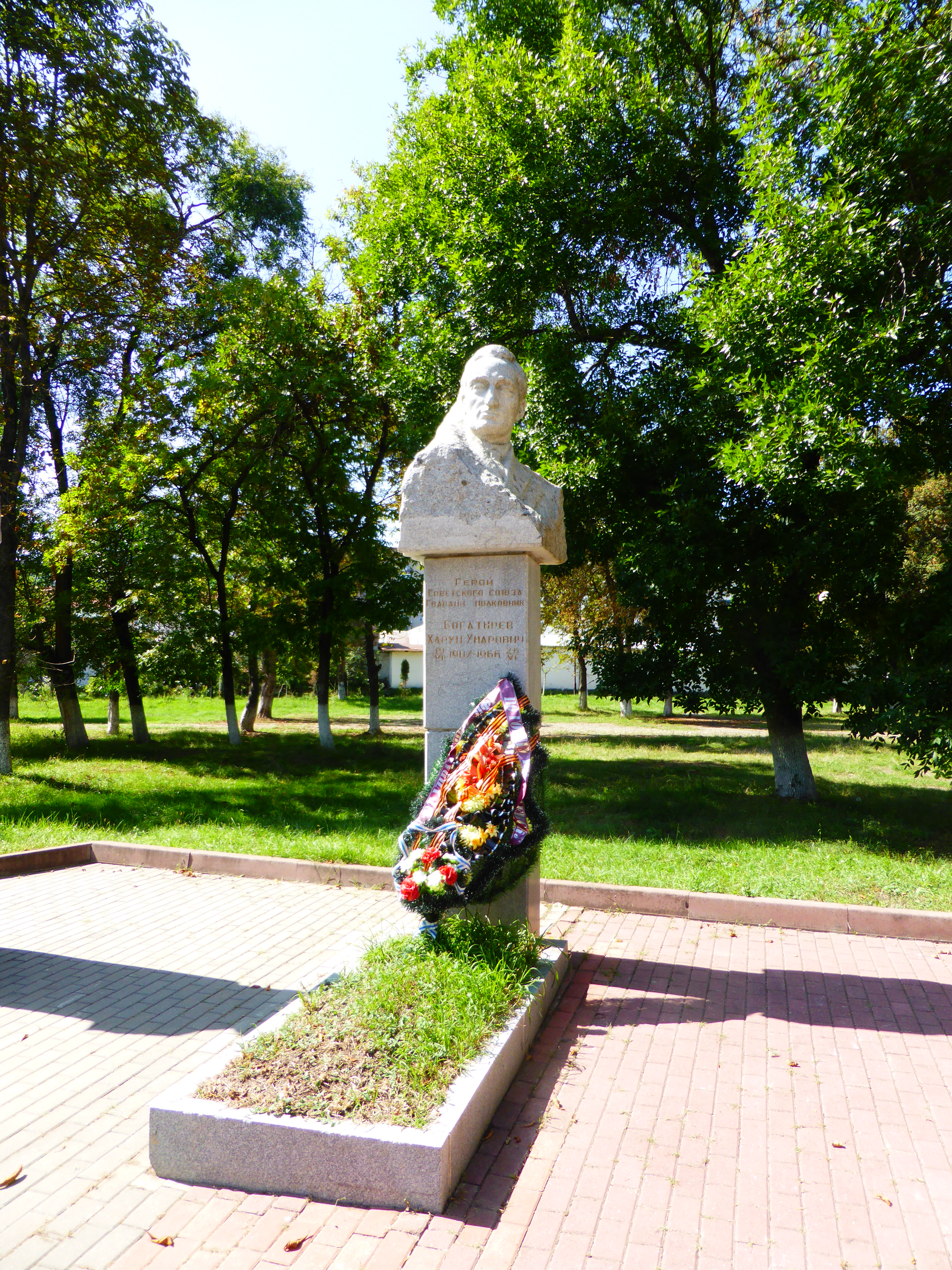 Bust of hero of the Soviet Union Bogatyrev